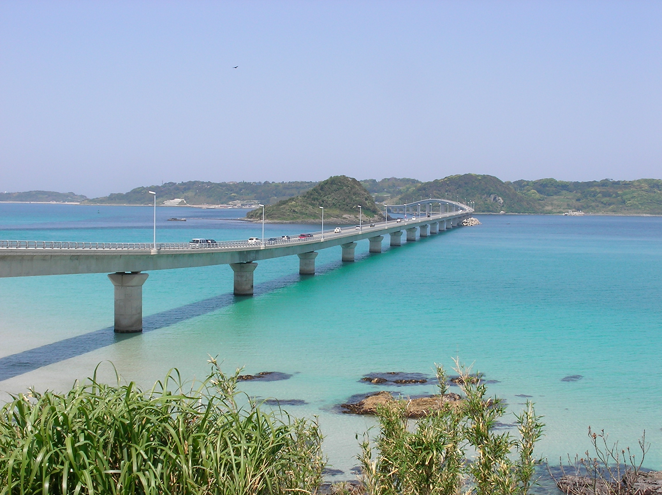 Tsunoshima